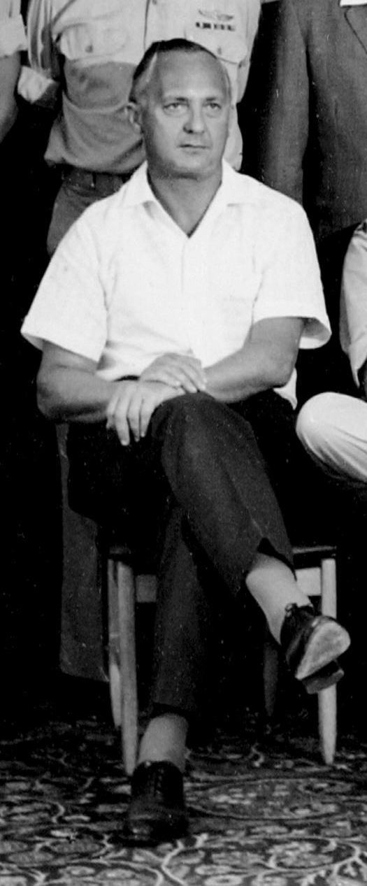 Asher Bar Natan.